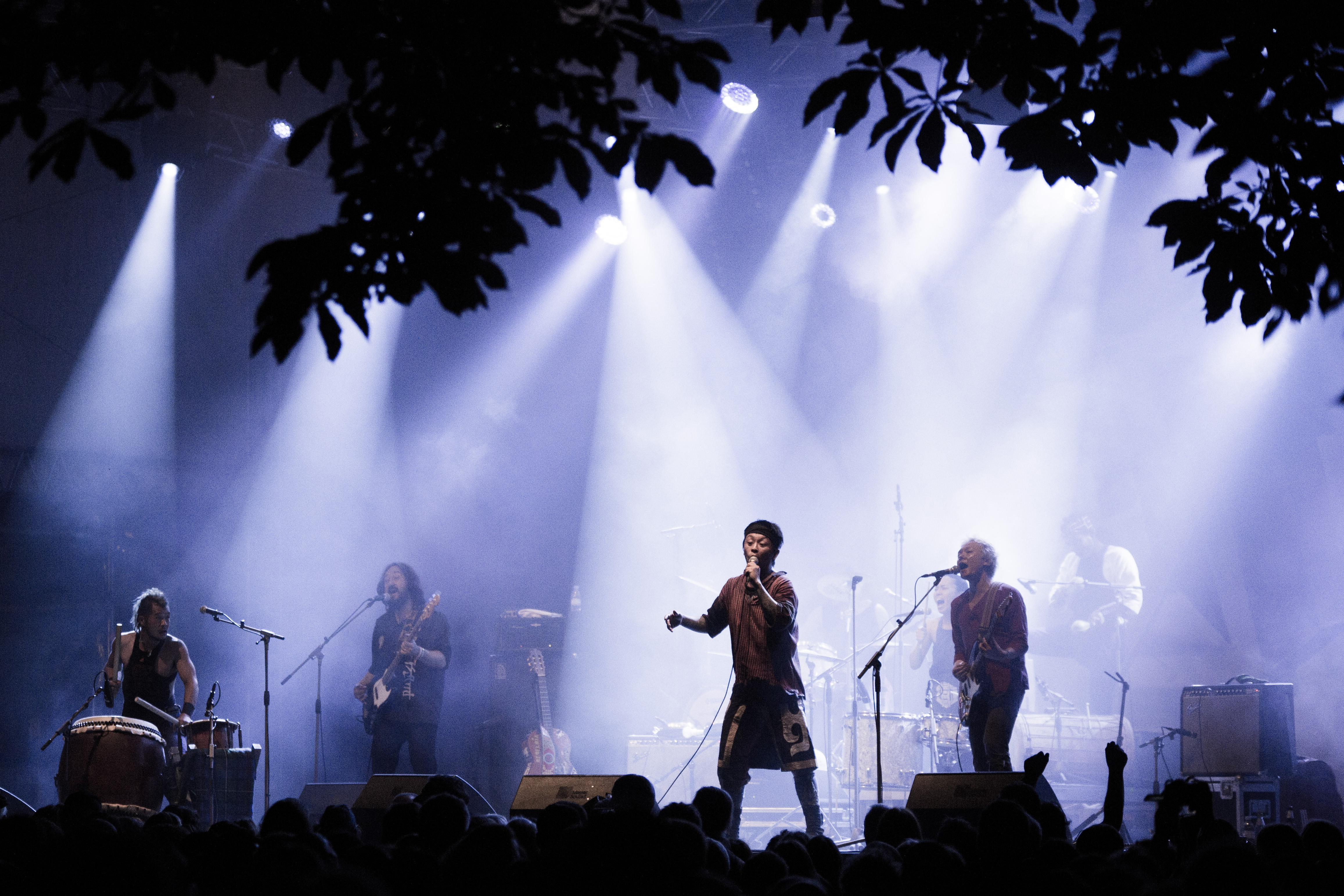 Turtle Island TTF.Rudolstadt 2014 Festivalsommer This photo was created with the support of donations to Wikimedia Deutschland in the context of the CPB project "Festival Summer".